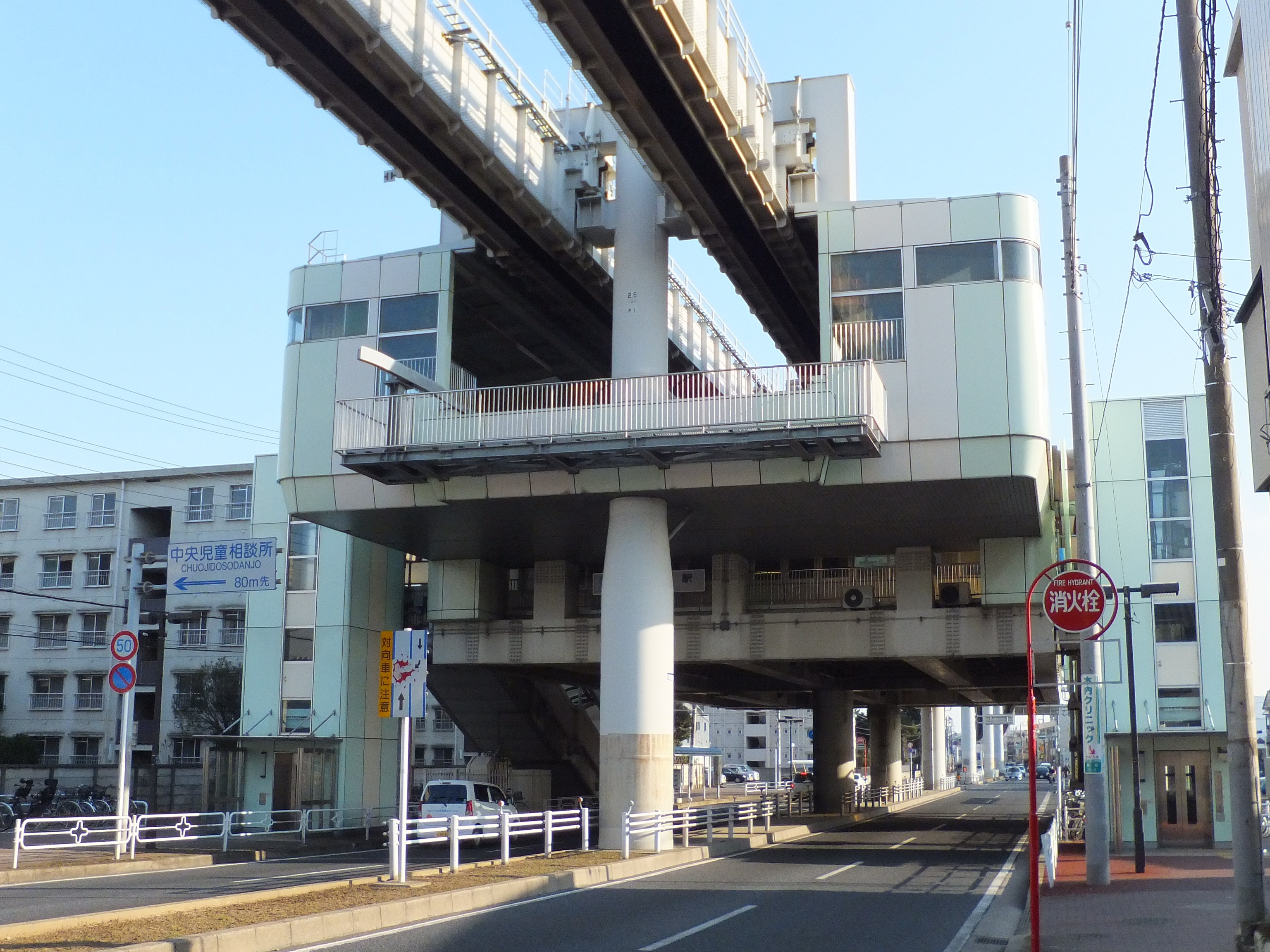 Tendai Station on Chiba Urban Monorail Line 2 in Inague ward, Chiba city, Japan.